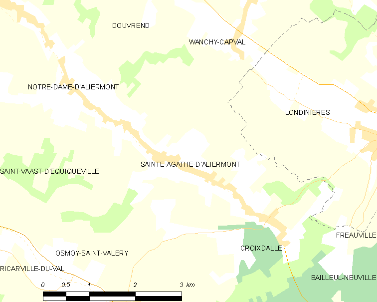 Map of French municipality Sainte-Agathe-d'Aliermont